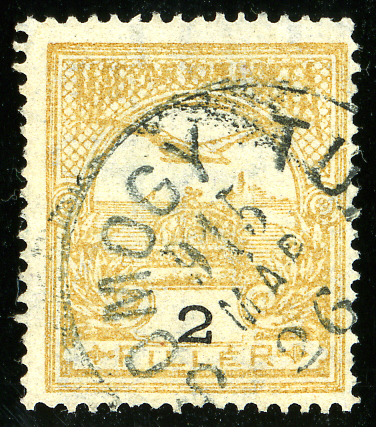 Kingdom of Hungary 2 fillér stamp, yellow (SG173) issue 1913, cancelled SOMOGY TÚR in 1915.